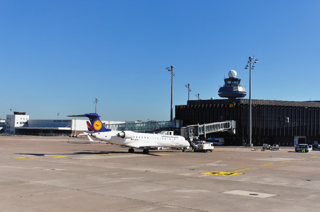 Lufthansa aircraft (D-ACPF) at Hannover Airport 2013